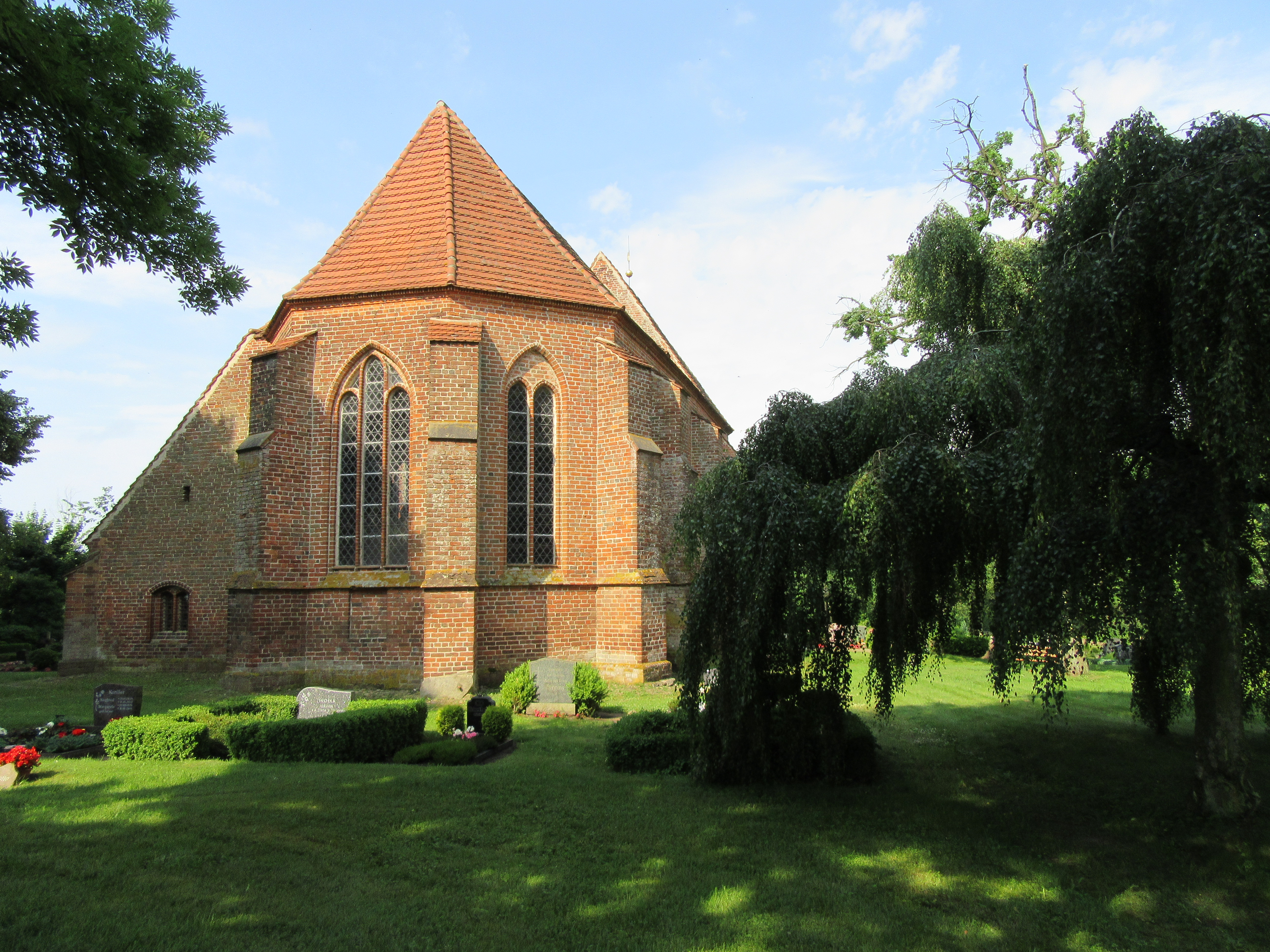 Retgendorf Kirche